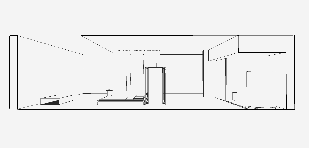 Sez 2 Modello parte notturna di un'abitazione